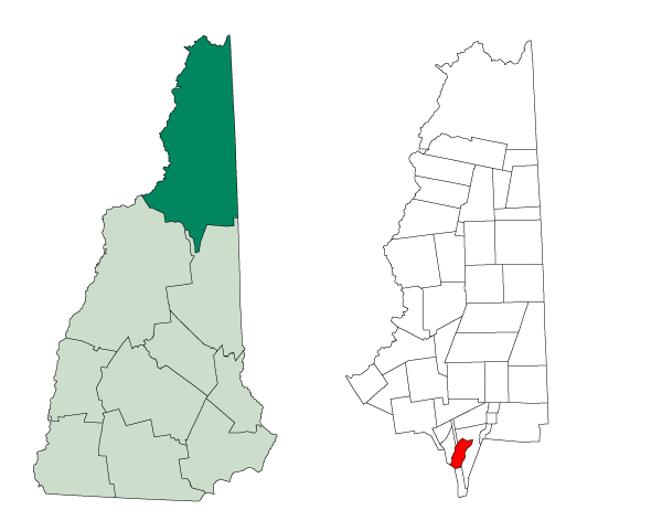 Map of a municipality in Coos County, New Hampshire